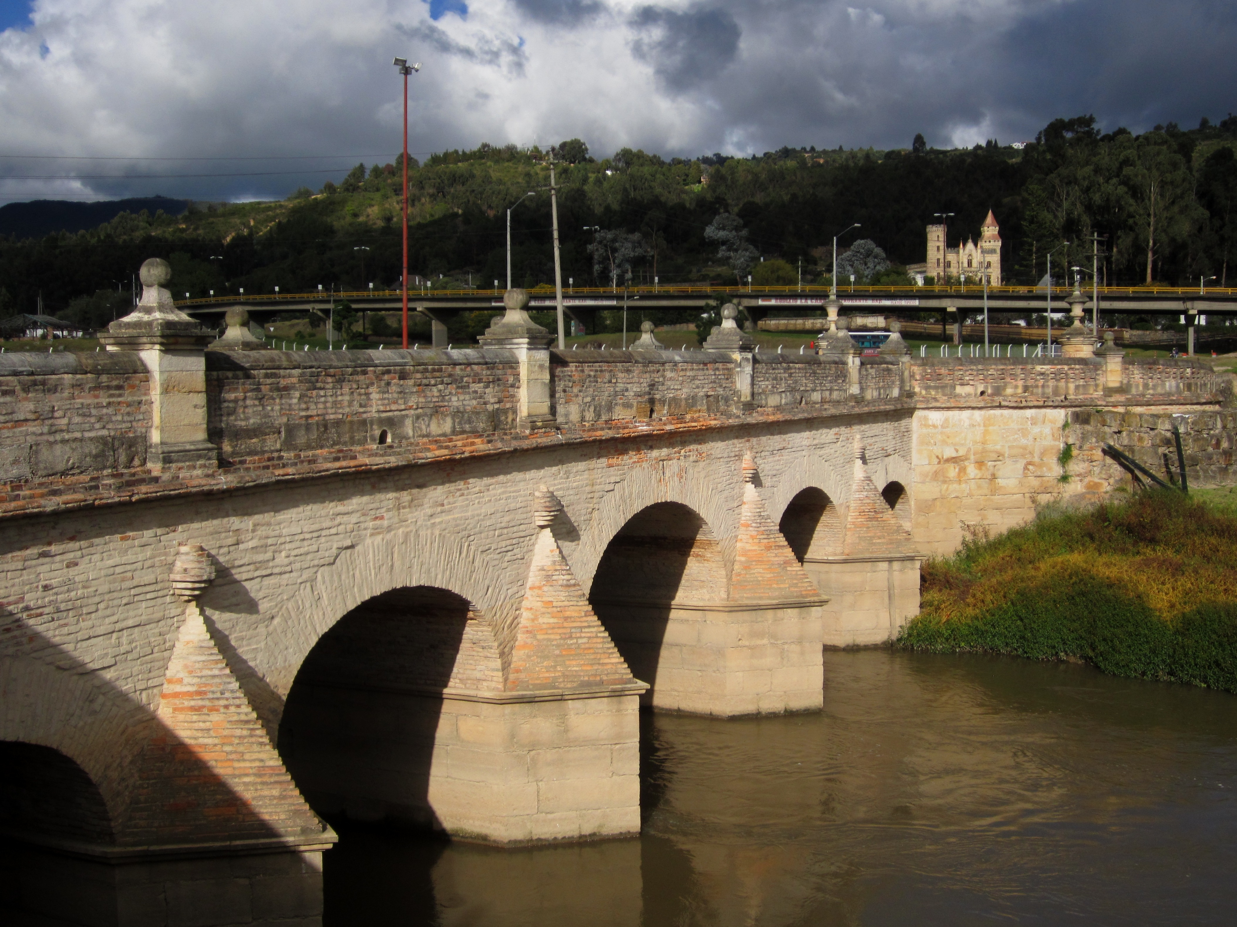 Bogotá